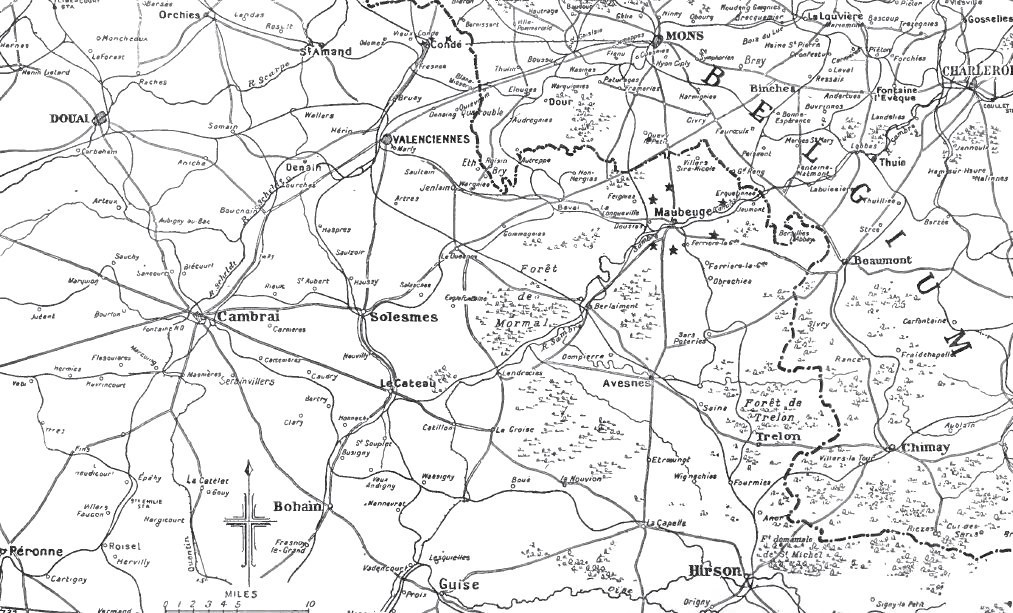 Map of initial BEF deployment, 1914